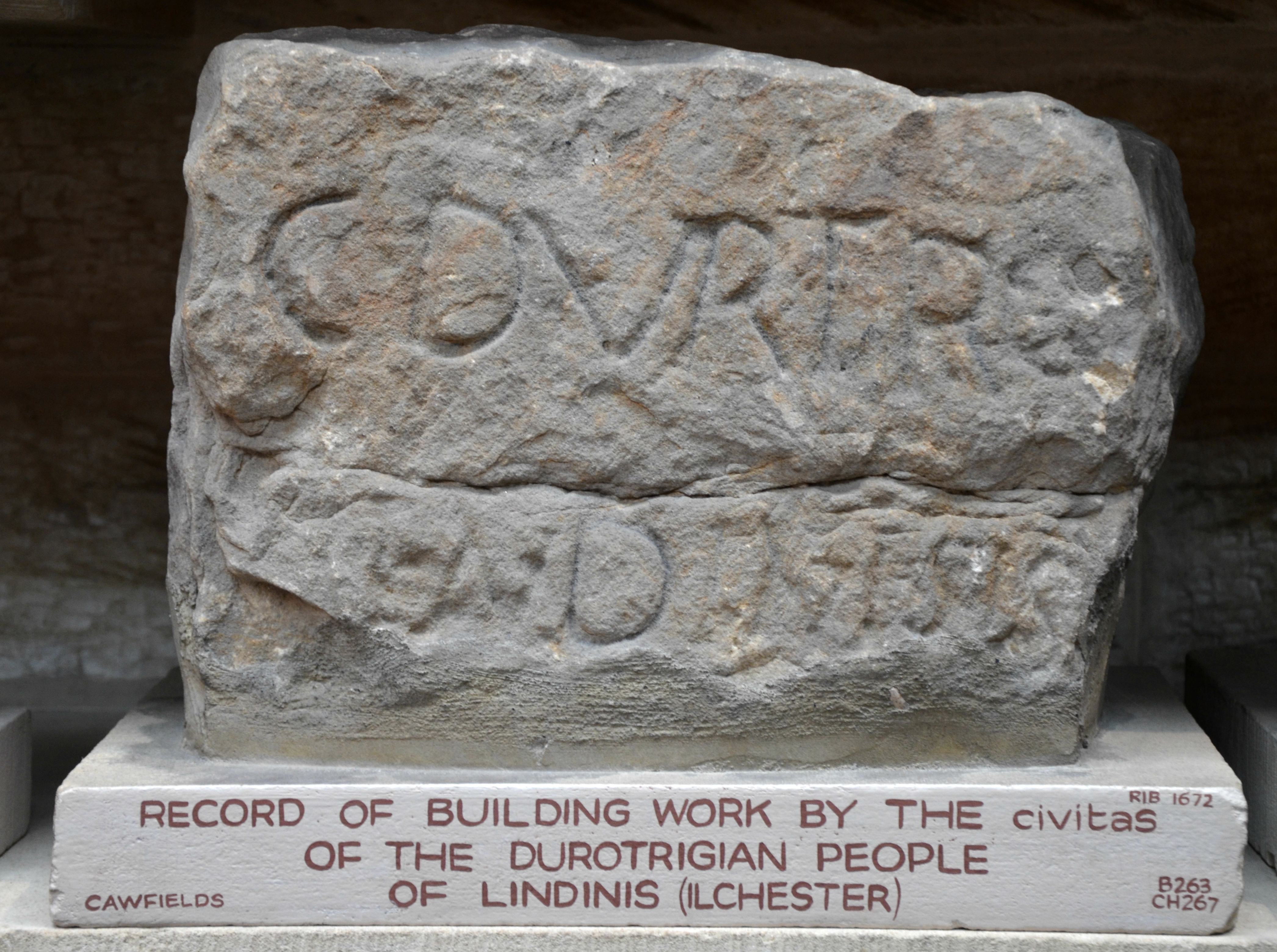 Clayton Museum, Chesters Roman Fort, Hadrian's Wall